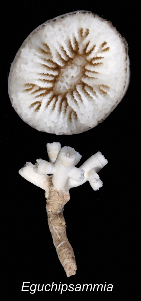 Cut-outs from original files: Recent_azooxanthellate_Scleractinia_(Cnidaria,_Anthozoa)_-_ZooKeys-227-001-g001 - 023